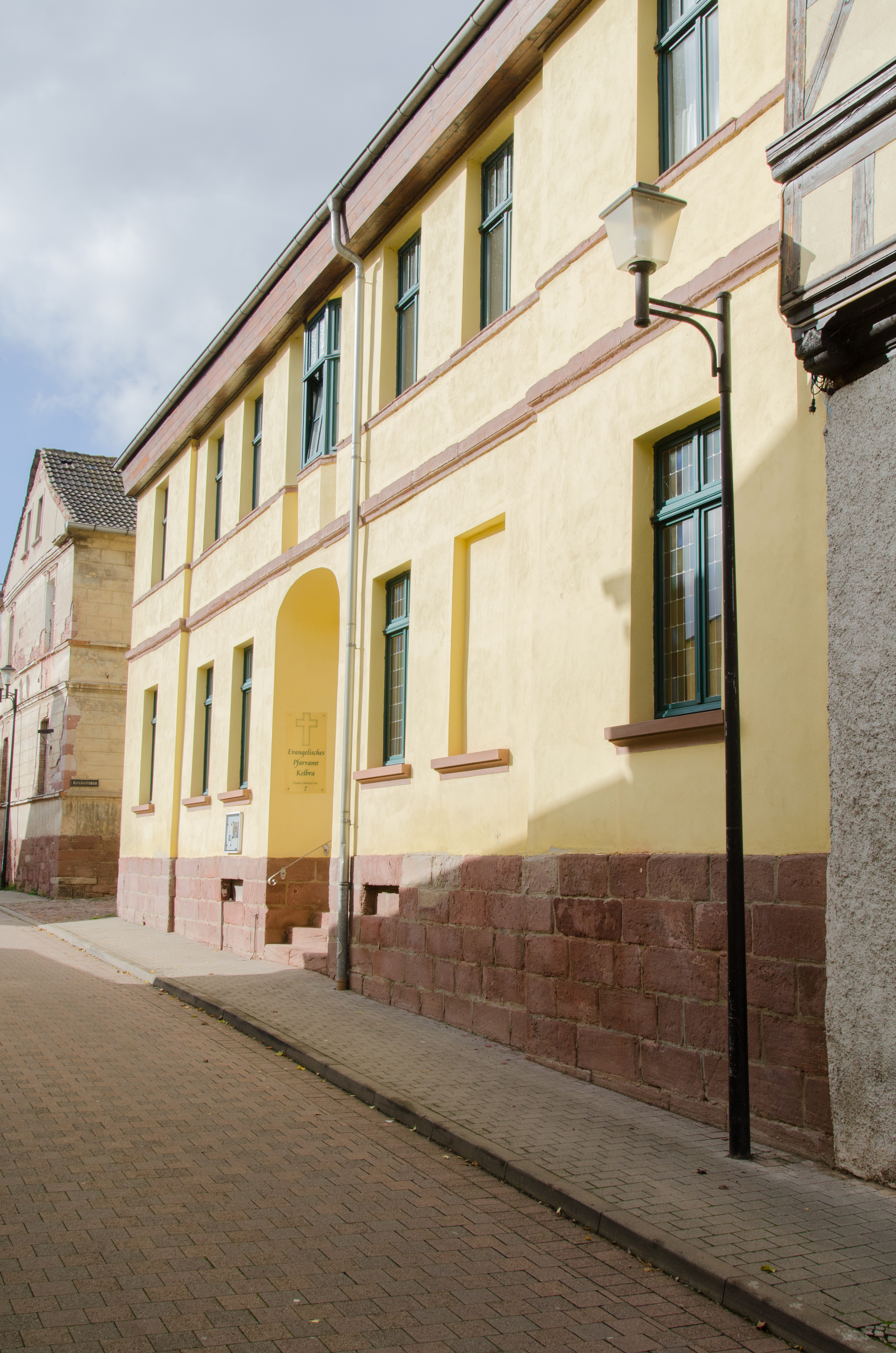 Kelbra, Thomas